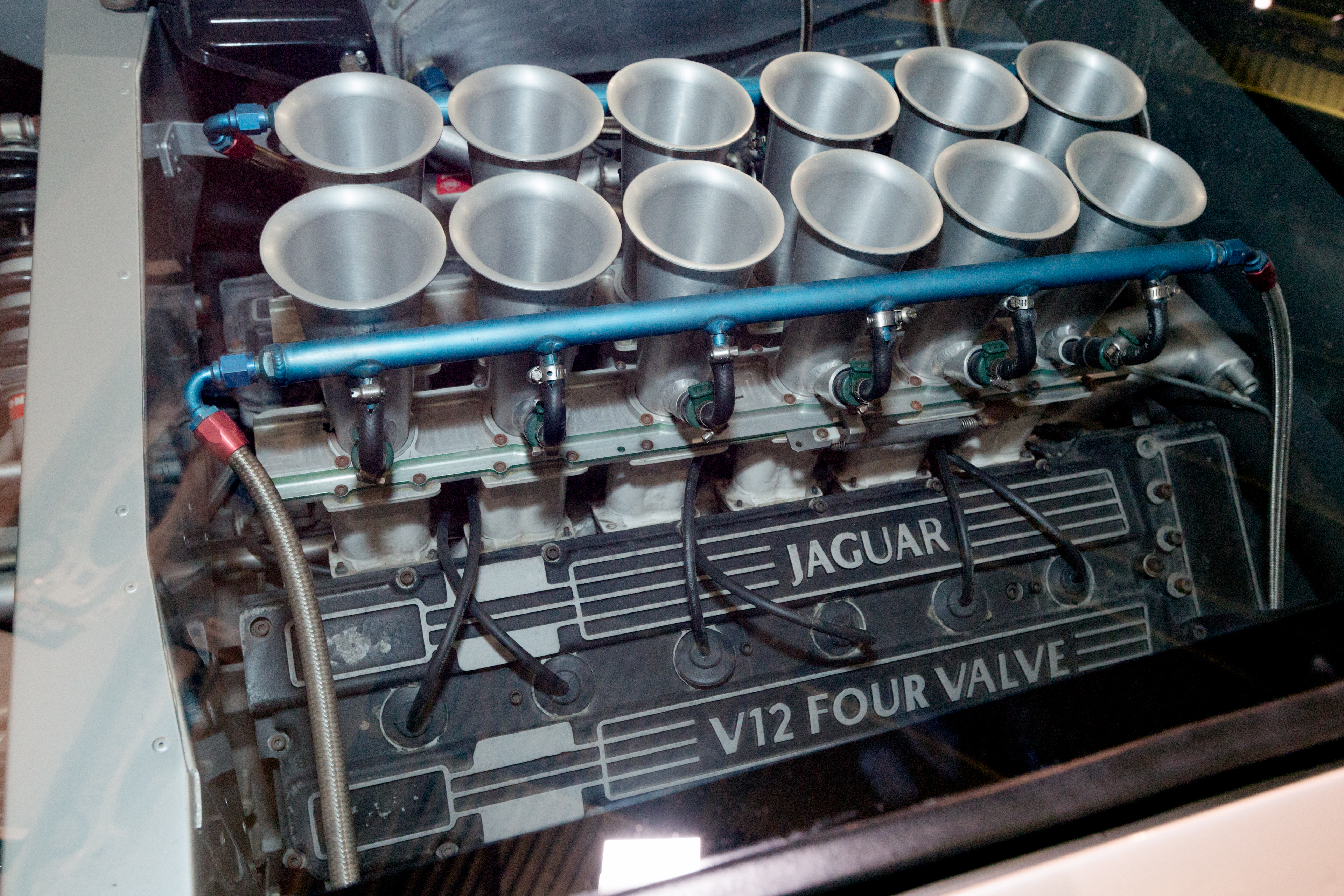 1988 Jaguar XJ220 Concept